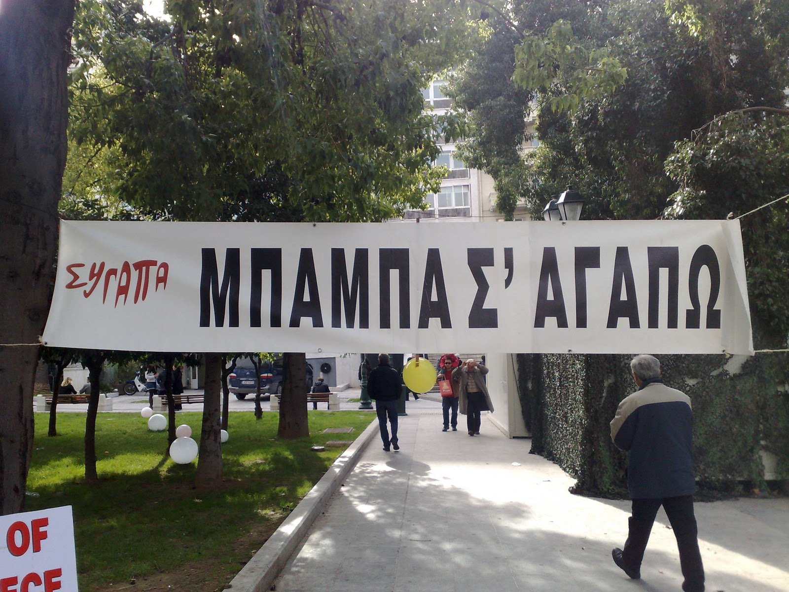 Fete des peres Grece 2004 SYGAPA